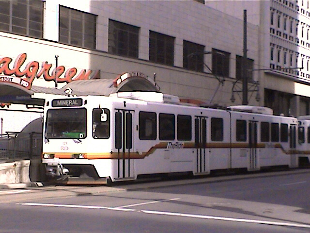 Denver RTD Light Rail Car Southbound at 16th & Stout. Photo by Ben Willett, MrB